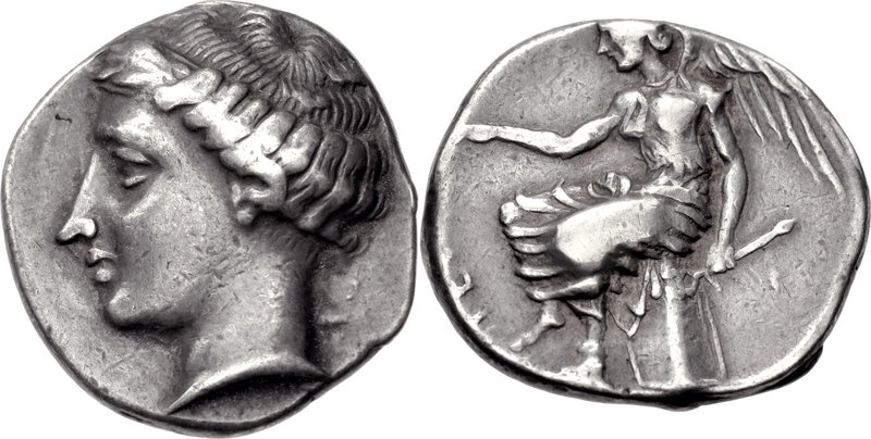 Bruttium, Terina. Circa 440-425 BC. AR Nomos (19mm, 7.80 g, 2h). Head of female (the nymph Terina?) left, wearing ampyx; [small Δ behind] Nike seated left on bomos, holding [wreath] and winged kerykeion.